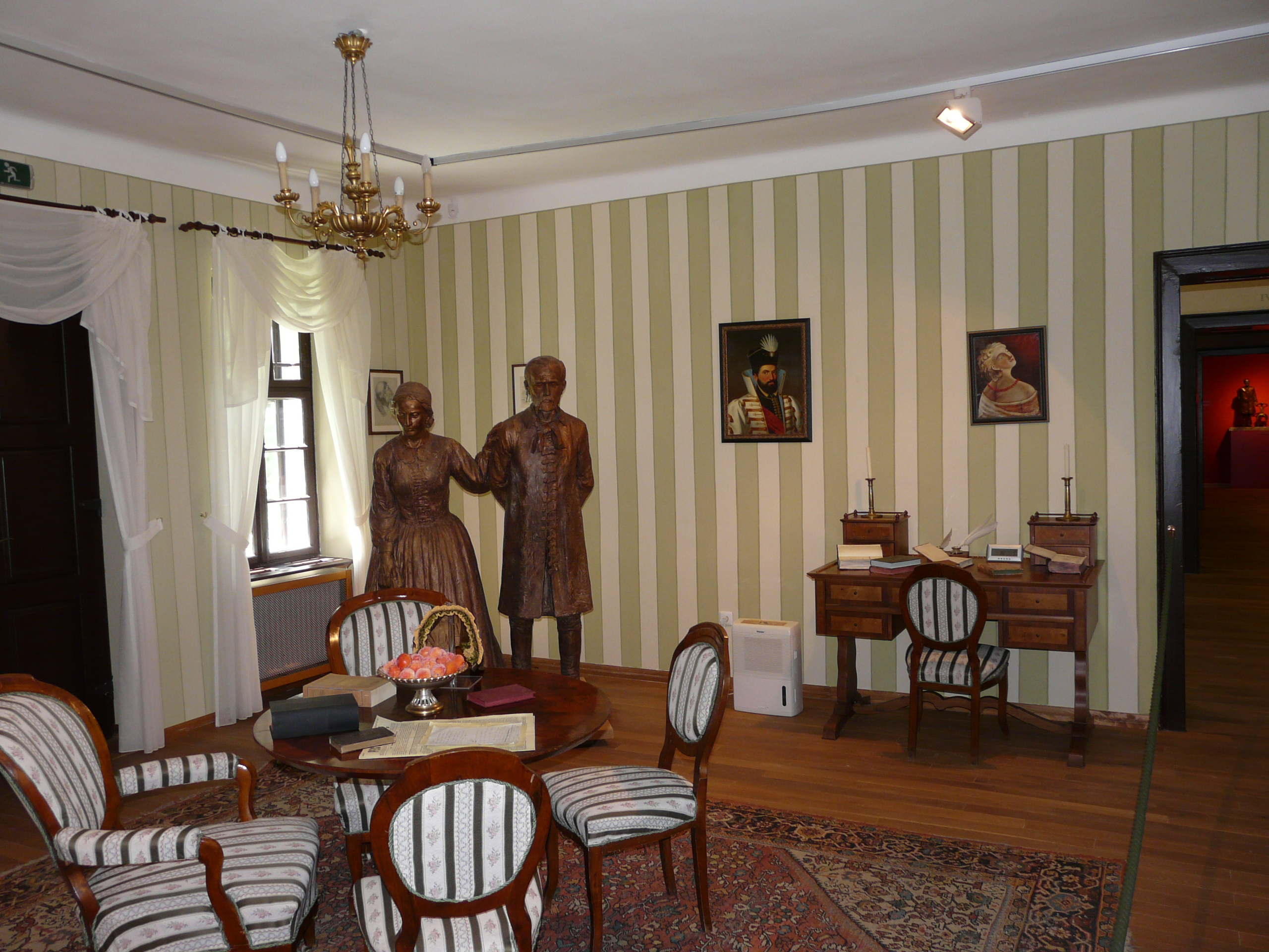 Statue of the couple, Imre Madách Memorial Museum in Csesztve